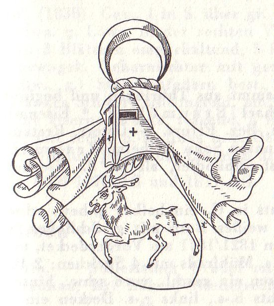 Coat of arms of the von Brauchitsch family.